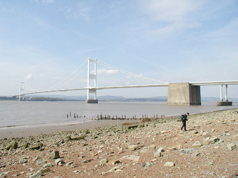 The Severn Bridge seen from the English side of the river